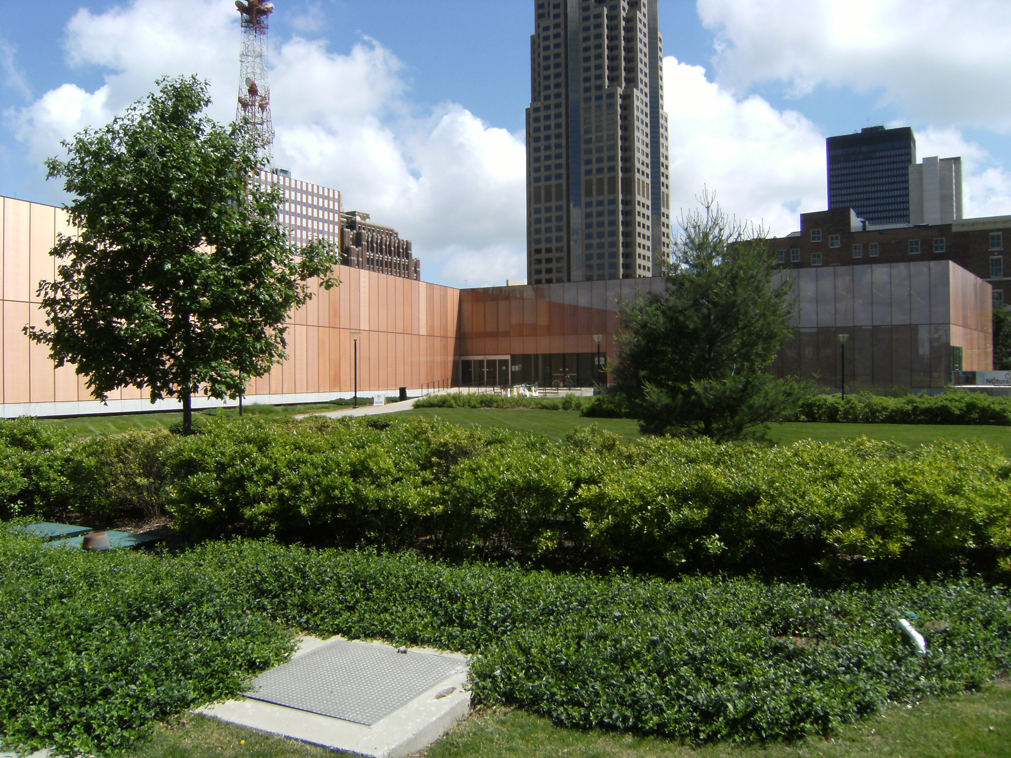 Picture of the Central Branch building of the Des Moines Public Library